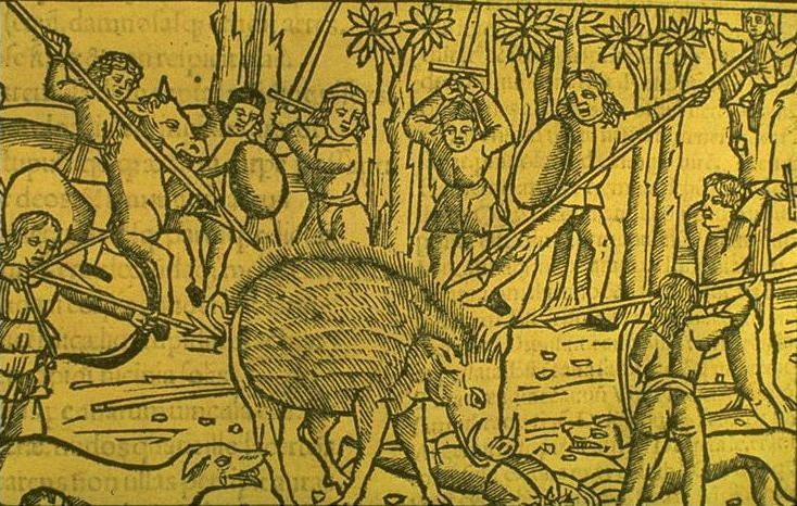 Calydonian Boar. Engraving by Regius for Ovid's Metamorphoses Book VIII, 281-317.